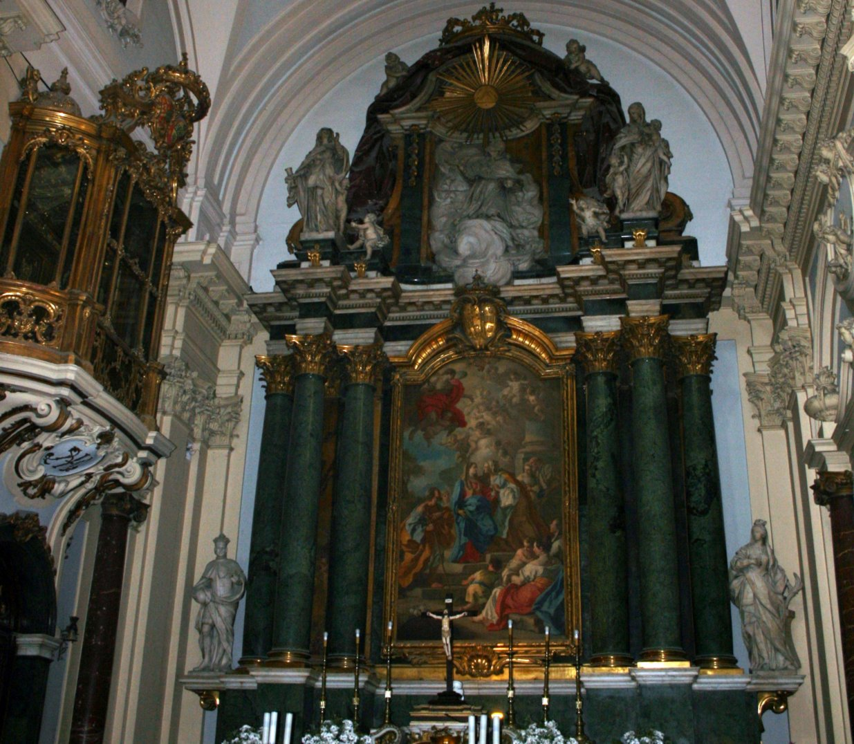 Presbiterio de la iglesia de Santa Bárbara de Madrid, o Salesas Reales. Lienzo de altar de Francesco de Mura dedicado a la Visitación, advocación original del templo y convento de salesas fundado por Bárbara de Braganza en 1747.